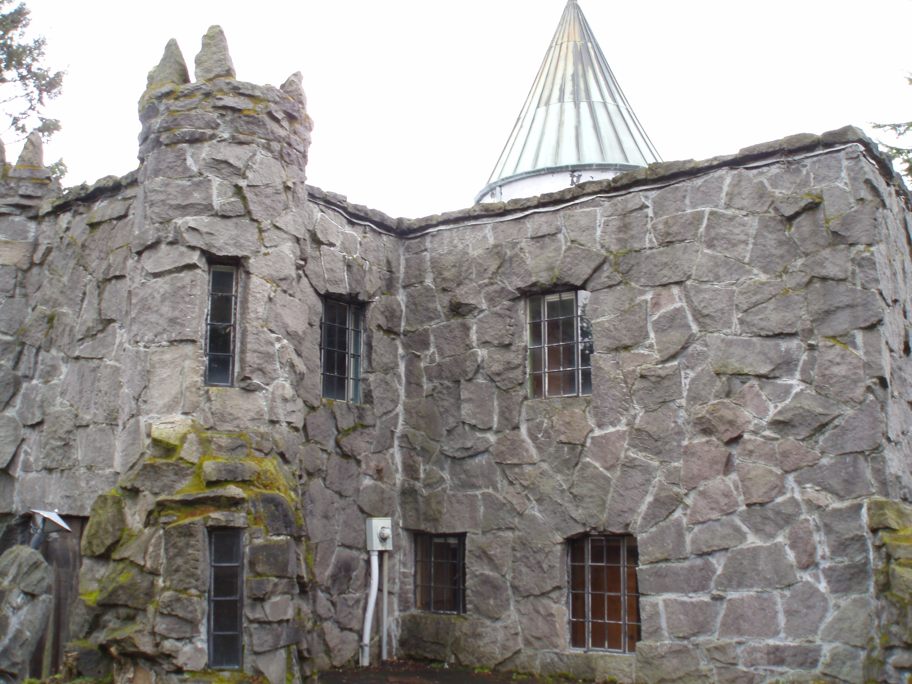 The exterior of Canterbury Castle in Portland, Oregon, before demolition